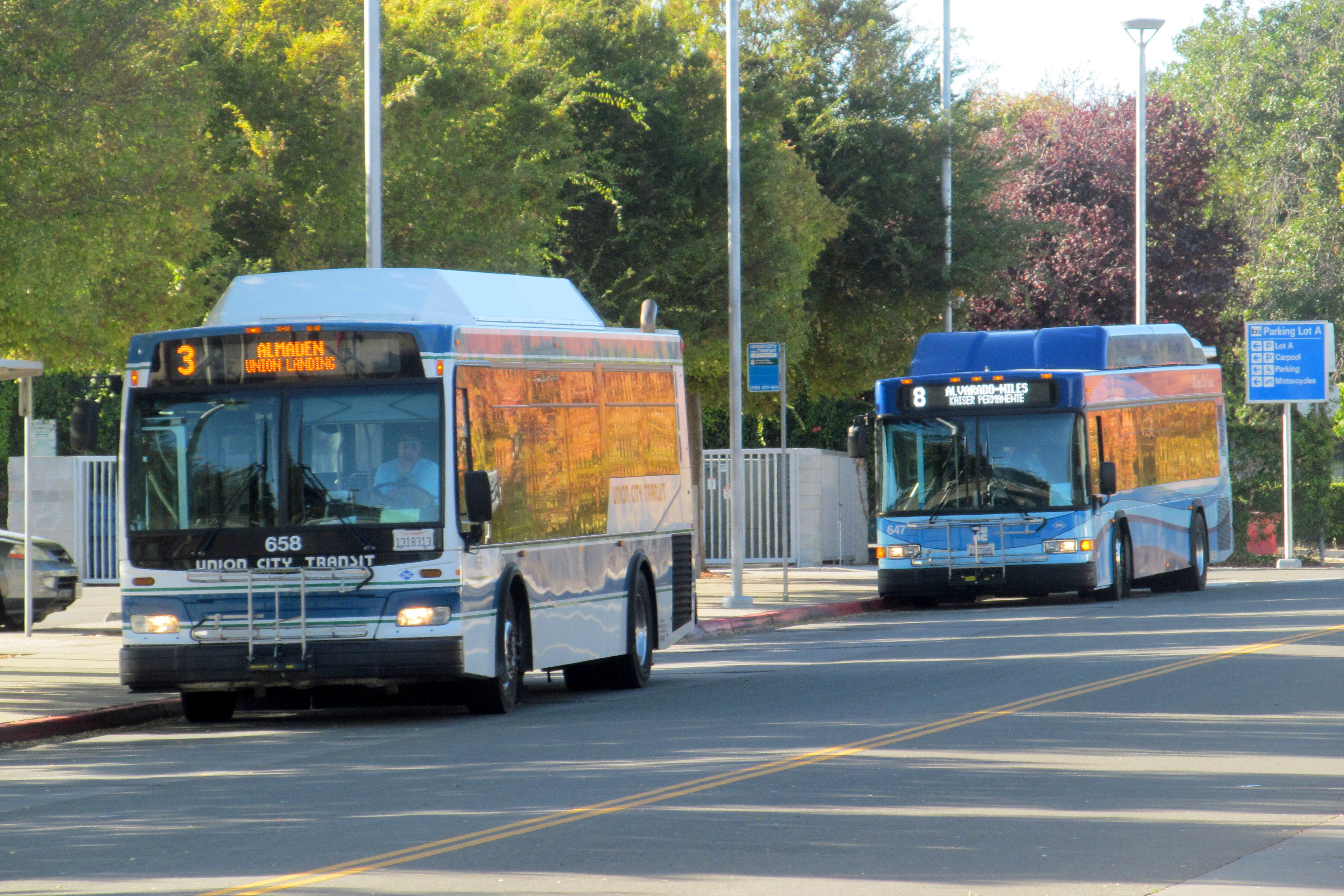 Union City Transit buses at Union City station in October 2017